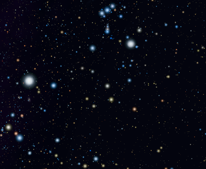 Image of Lepus